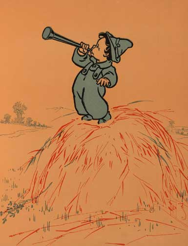 Little Boy Blue illustration for Denslow's Mother Goose